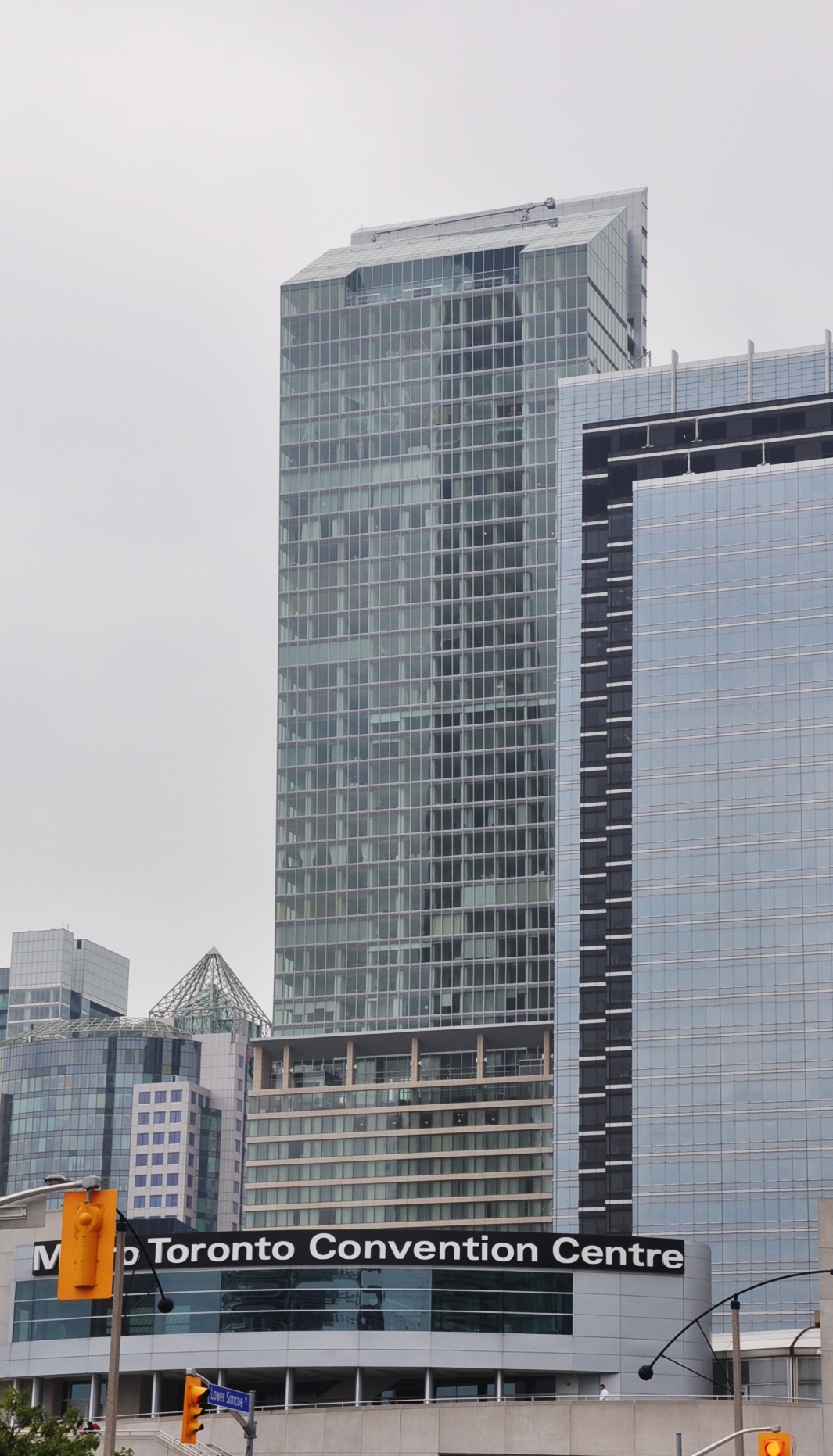 A view of Toronto's Ritz-Carlton from Queen's Quay and York